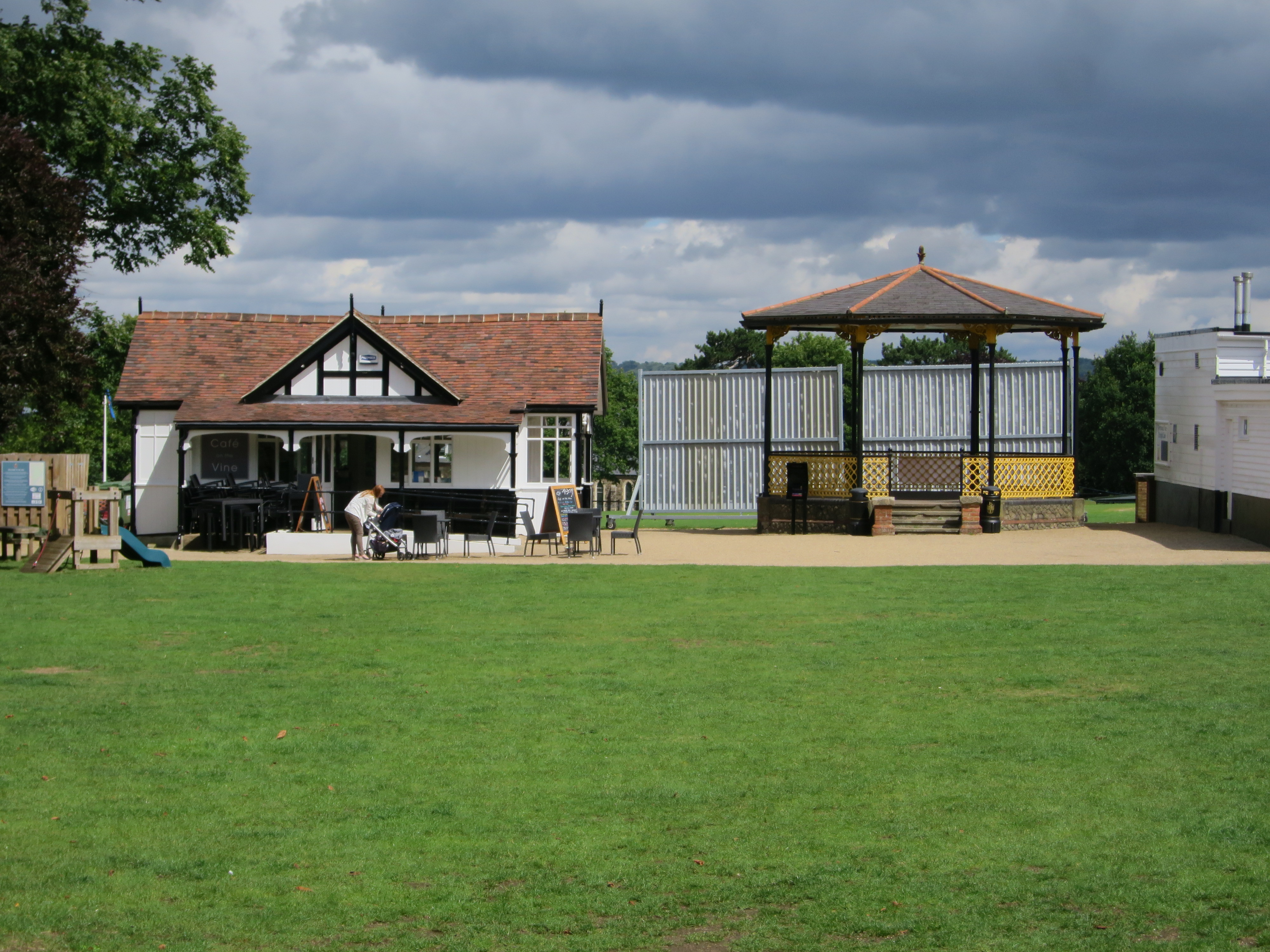 Bandstand by Sevenoaks Vine Cricket Ground, Sevenoaks, Kent